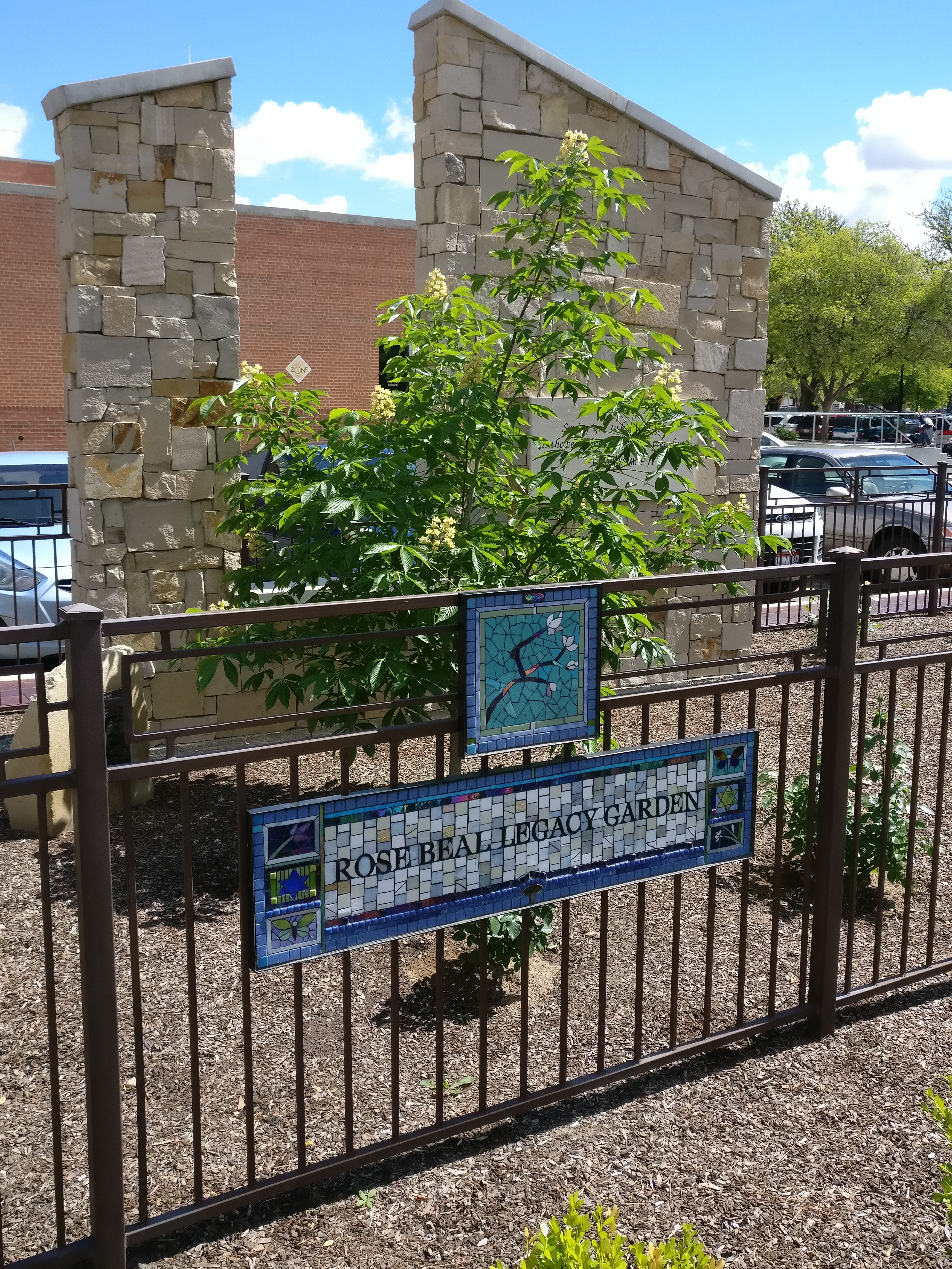 A sapling from the Anne Frank tree, one of only 11 in the U.S., at the Anne Frank Human Rights Memorial in Boise, Idaho.